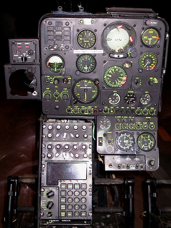 Main control panel of a Gazelle SA 342M liaison helicopter of the French Army's Light Aviation (ALAT).